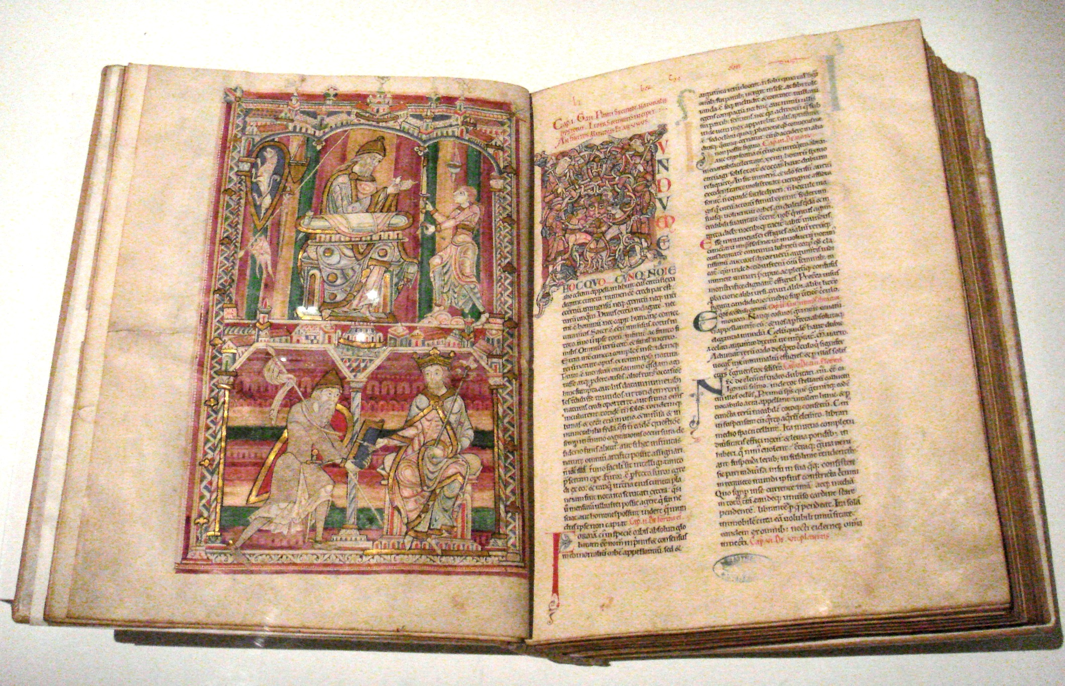 Histoire_Naturelle_Pline_l_Ancien_mid_12th_century_Abbaye_de_Saint_Vincent_Le_Mans_France